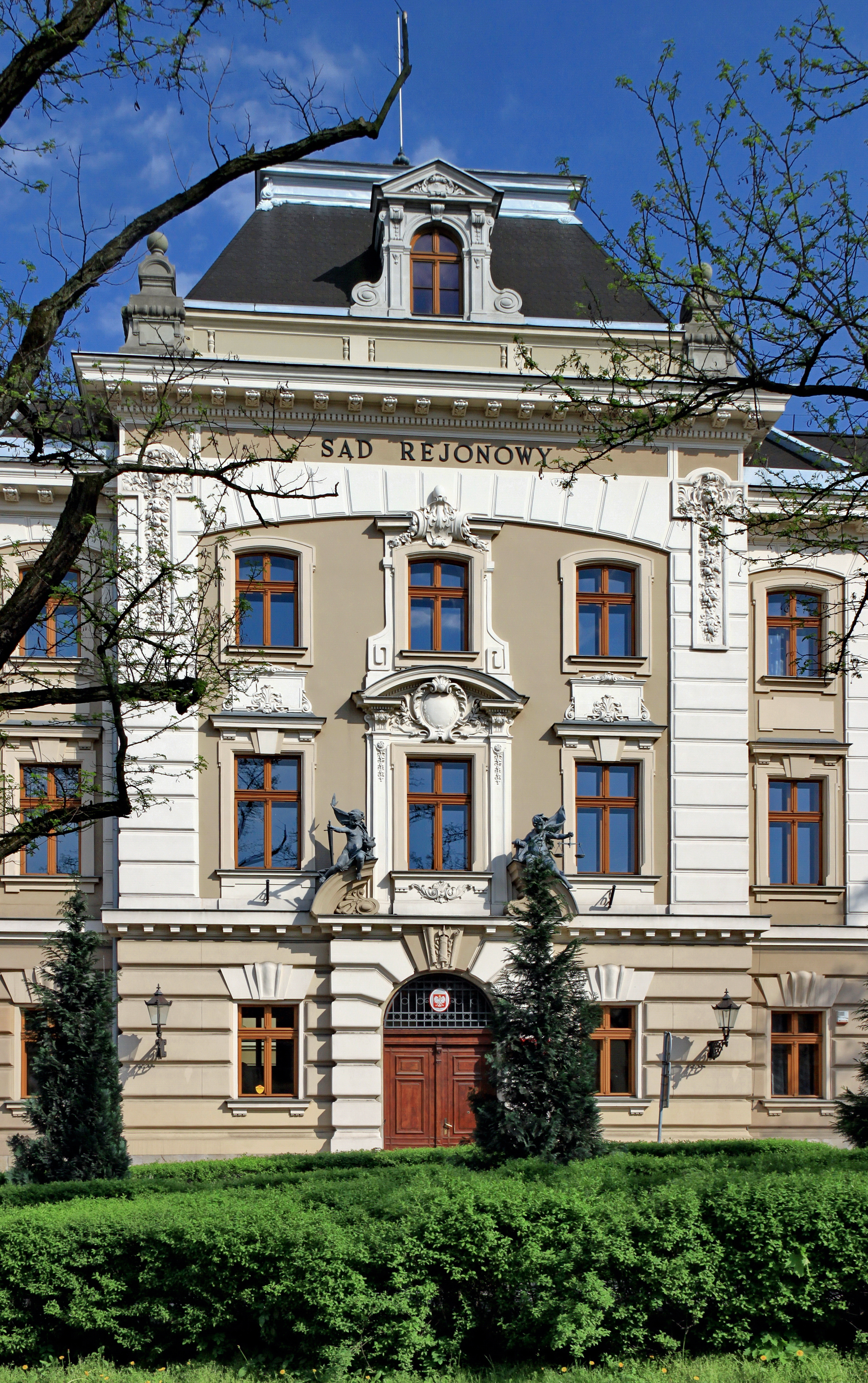 Cieszyn, district court, build in 1905